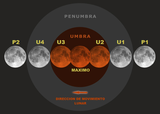 The diagram shows the names of the contacts in a lunar eclipse. Right to left: P1 (First contacto): Beginning of the penumbral eclipsel. U1 (Second contacto): Beginning of the parcial eclipse. U2 (Third contacto): Beginning of the total eclipse. Greatest eclipse: Beginning of the penumbral eclipse. U3 (Fourth contacto): End of the total eclipse. U4 (Fifth contacto): End of the partial eclips. P2 (Sixth contacto): End of the penumbral eclipse.